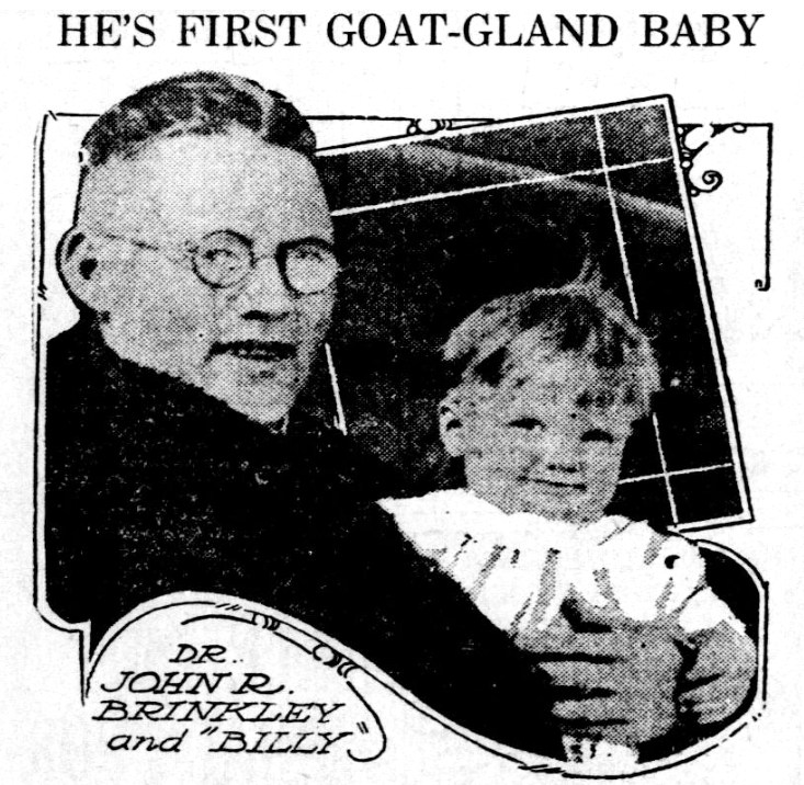 Dr. John R. Brinkley and "Billy" Original text accompanying photograph: Milford, Kan.— Picture shows Dr. John R. Brinkley, holding "Billy," one of the famous goat-gland babies. Dr. Brinkley, a surgeon, has startled the scientific world by transplanting goat glands to men and omen as a means of restoring a lost heritage. The parents of "Billy" had wanted a baby for 18 years. Dr. Brinkley persuaded the father to submit to an operation involving the transplanting of glands from a goat. This perfectly healthy and laughing baby came along to bless a home that had been childless for those many years.